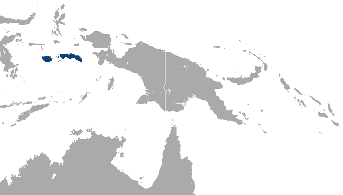 Lesser Tube-nosed Bat (Nyctimene minutus) range